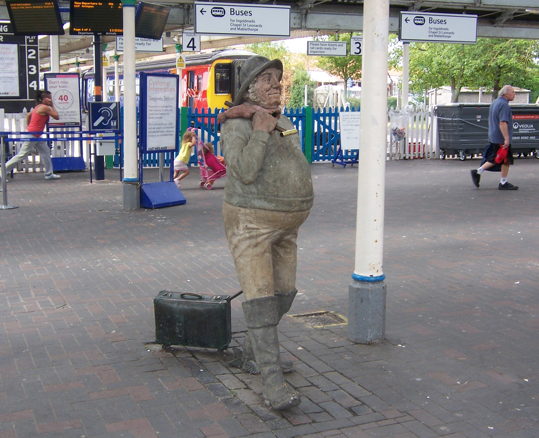 Jolly Fisherman at Skeness railway station